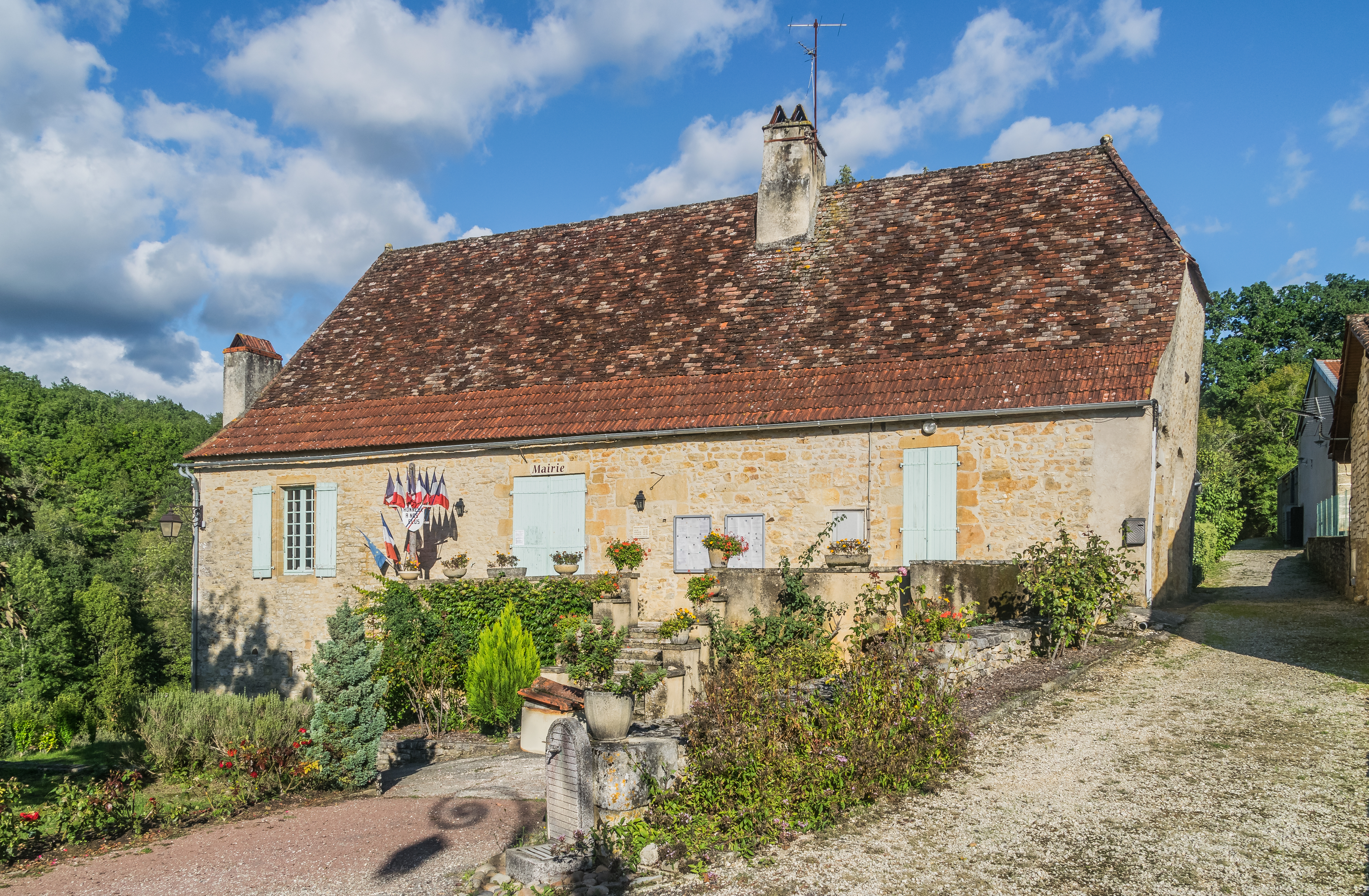 Town hall of Berbiguières, Dordogne, France